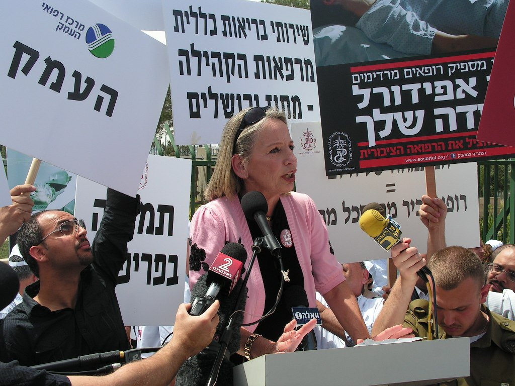 Dr Rachel Adato-Levy (Hebrew: רחל אדטו-לוי, born 21 June 1947) is an Israeli gynaecologist, lawyer and politician who currently serves as a member of the Knesset for Kadima.